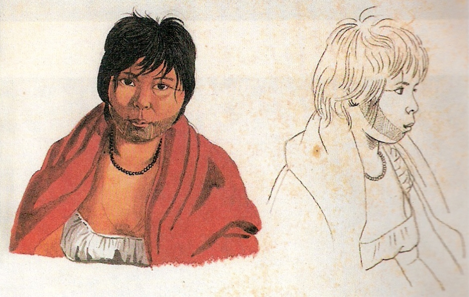 Apiaká indian, in Brazil.